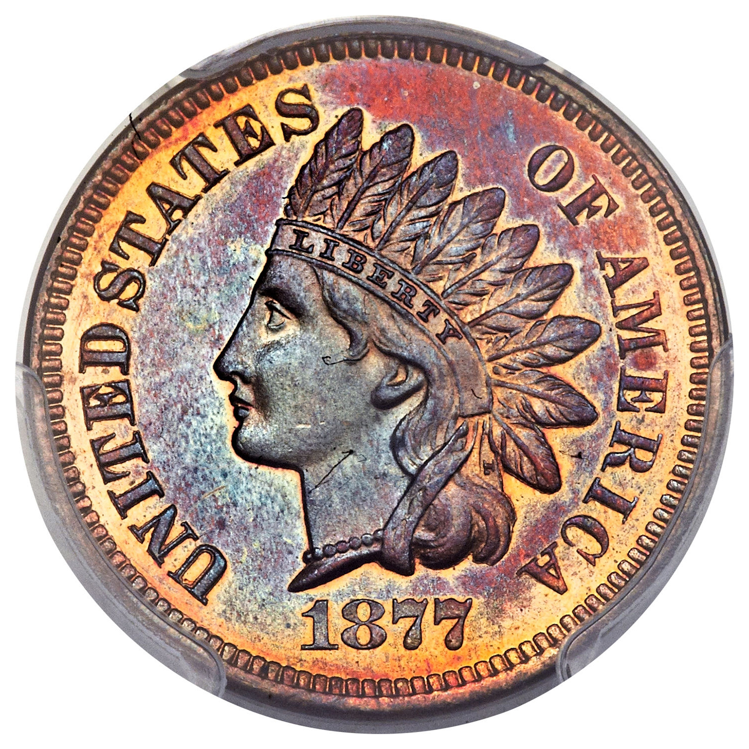 1877 1C Proof Red and Brown (obv) (1216-3256)